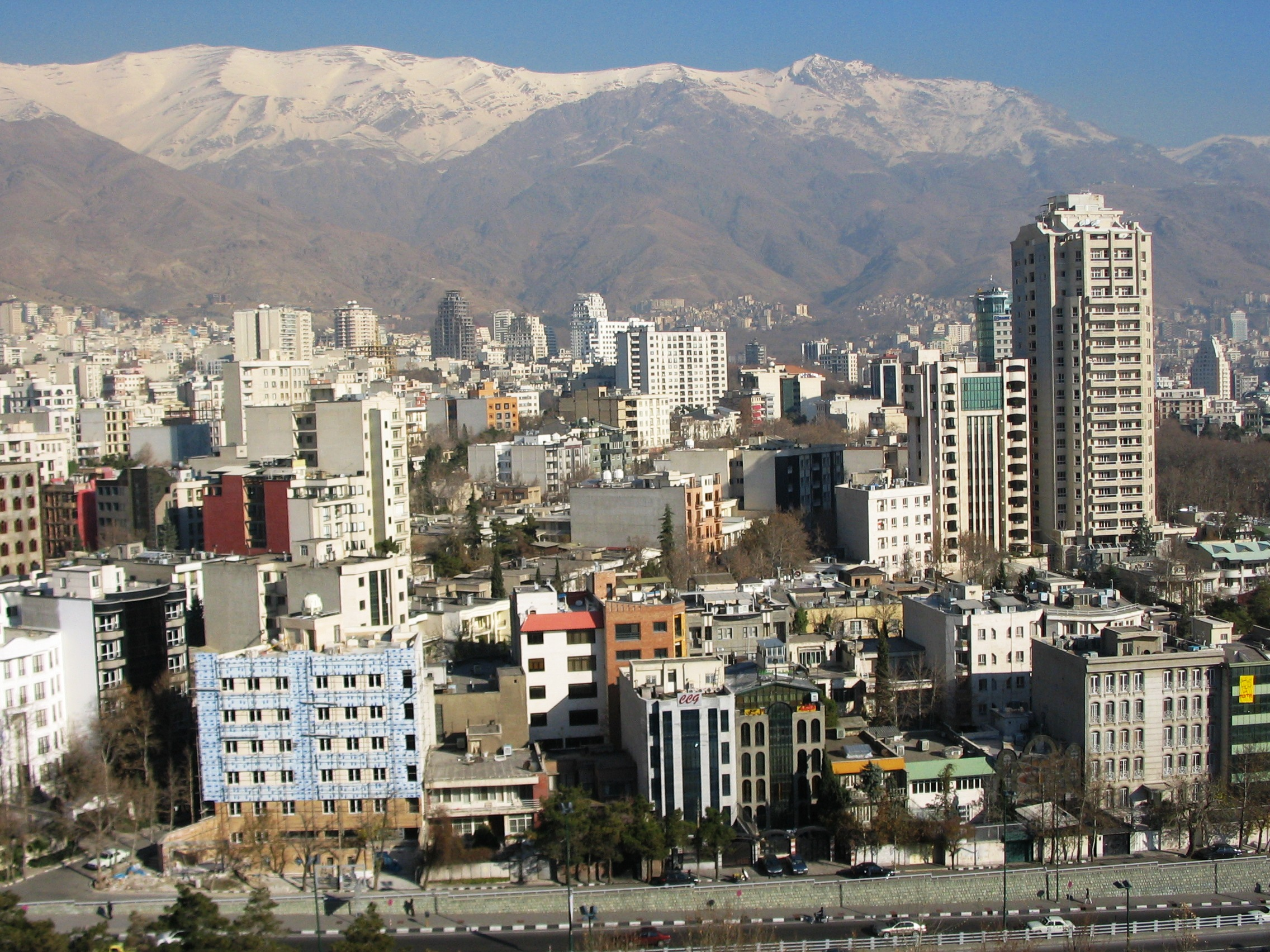 Northern Tehran City with Alborz Mountains in the background, Iran.